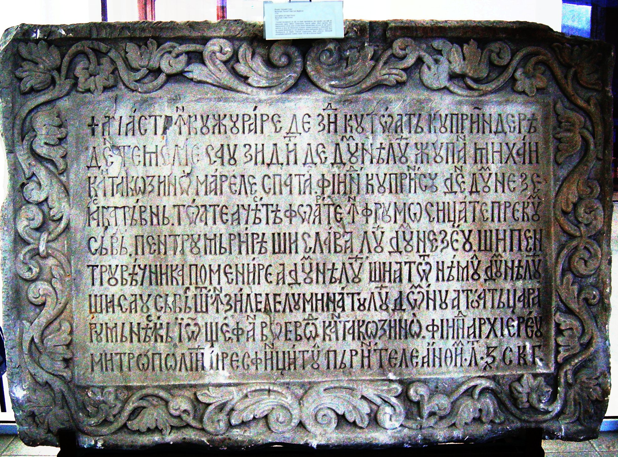 Inscription of Colţei Tower, Bucharest 1714. Museum of Romanian History in Bucharest, Romania.